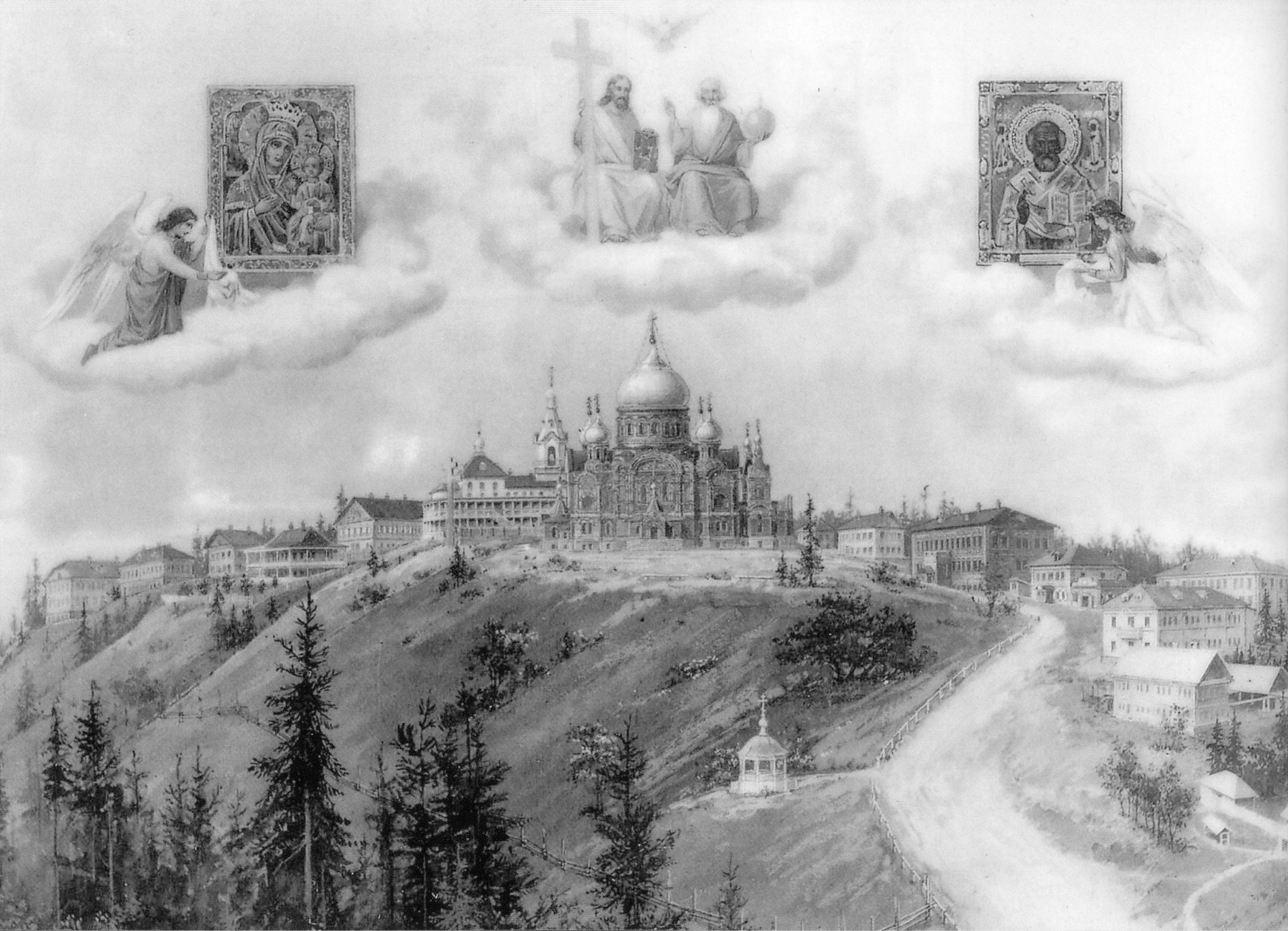 Zelenin A. N. Belaya Gora monastery in 1913